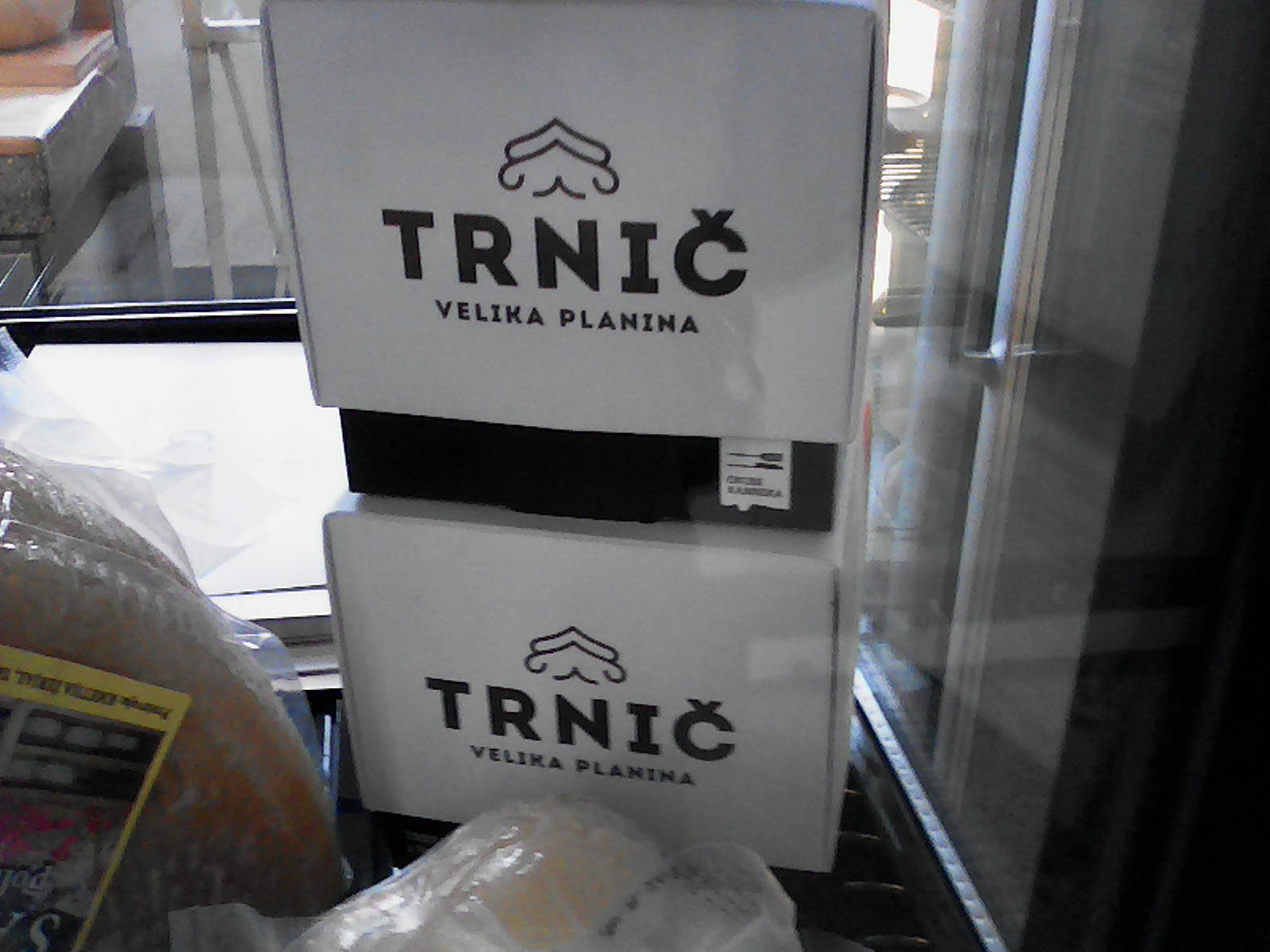 Trnič cheese